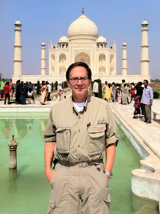 A snapshot of Dr. Mark Goulston, visiting the Taj Mahal.